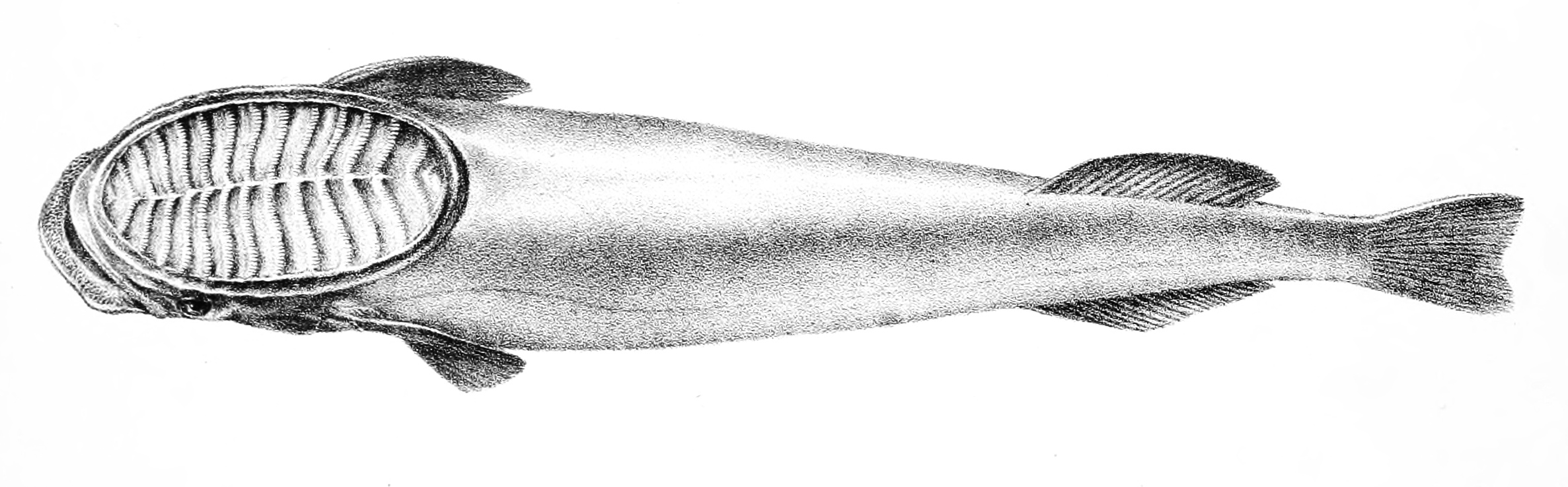 The species names / identity need verification. The original plates showed the fishes facing right and have been flipped here. Echeneis albescens